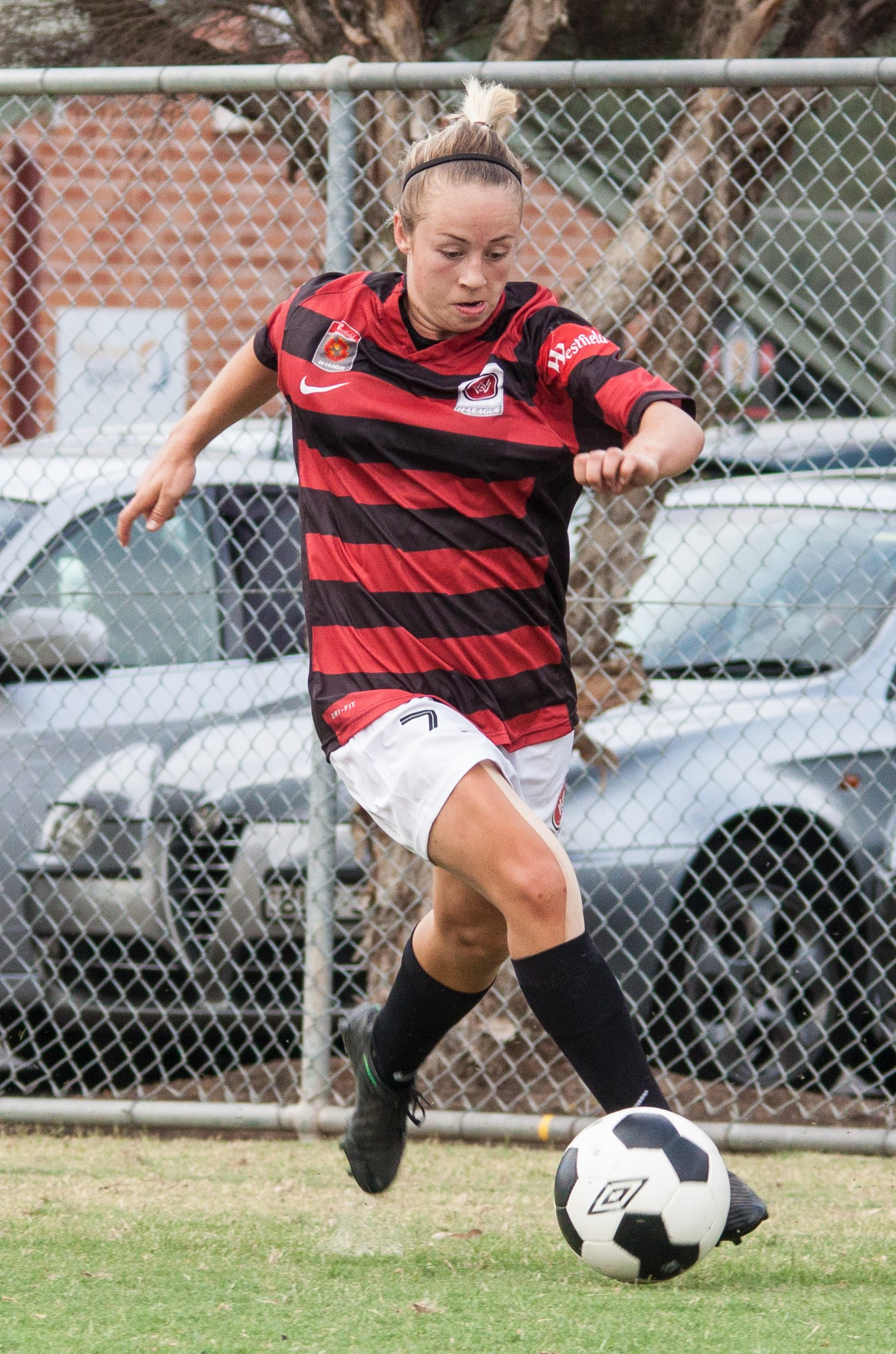 Jenna Kingsley in action for the Western Sydney Wanderers W-League team